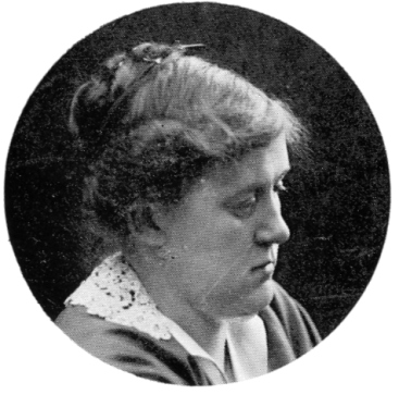 Photgraph of the Finnish writer Catri Gripenberg (1884–1957).